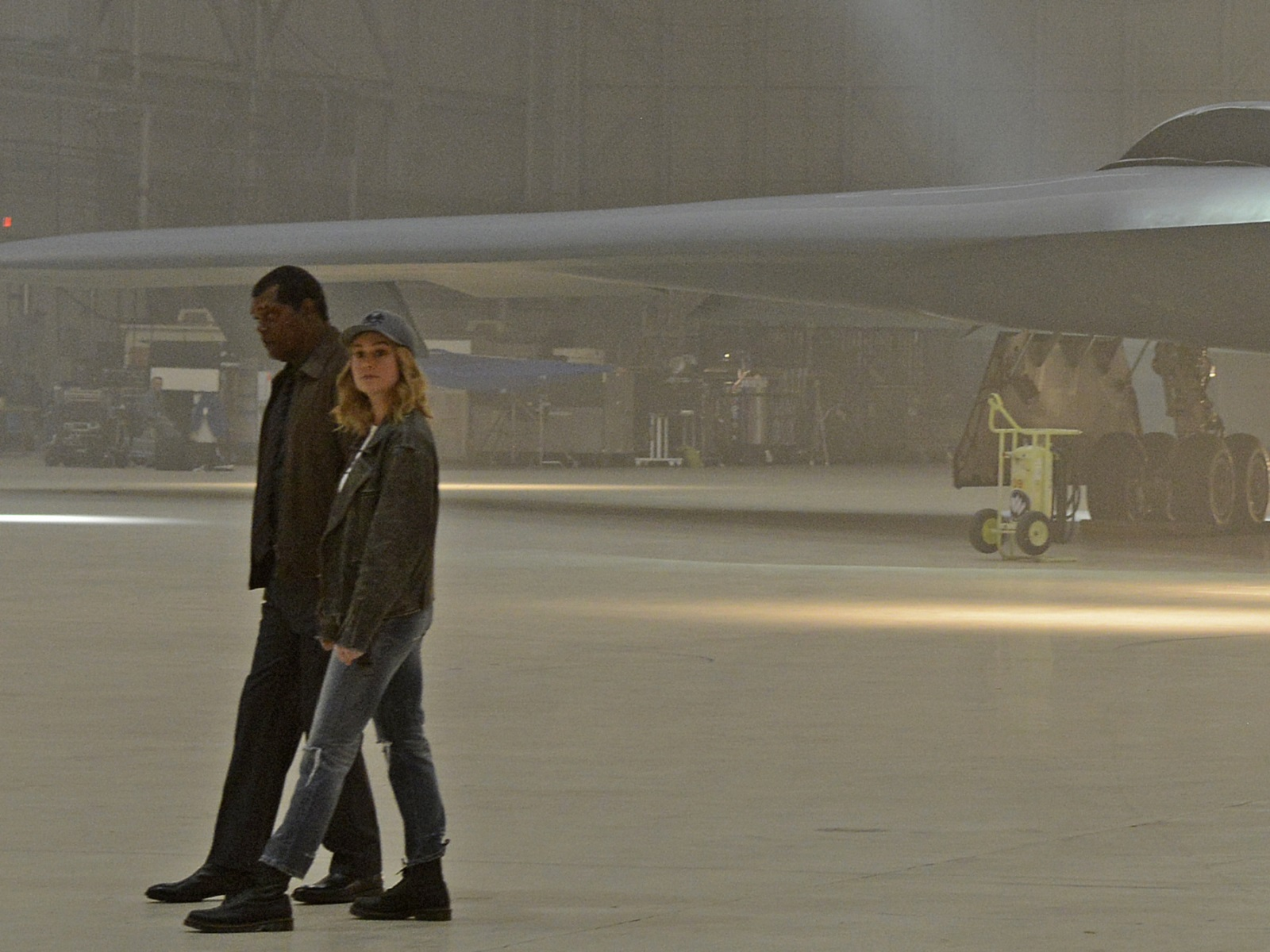 Cropped version of File:Captain Marvel filming at Edwards AFB 2.jpg; Brie Larson and Samuel L. Jackson, “Captain Marvel” stars, on set during filming at Edwards Air Force Base, Calif., April 20, 2018. To ensure an accurate depiction of military service, filmmakers and actors immersed with Airmen from across the Air Force. (U.S. Air Force photo by Kenji Thuloweit).